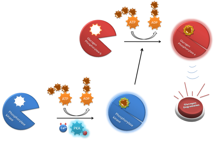 Glycogen degradation pathway is dependent on the activation of phosphorylase kinase which is activated by protein kinase A (PKA)